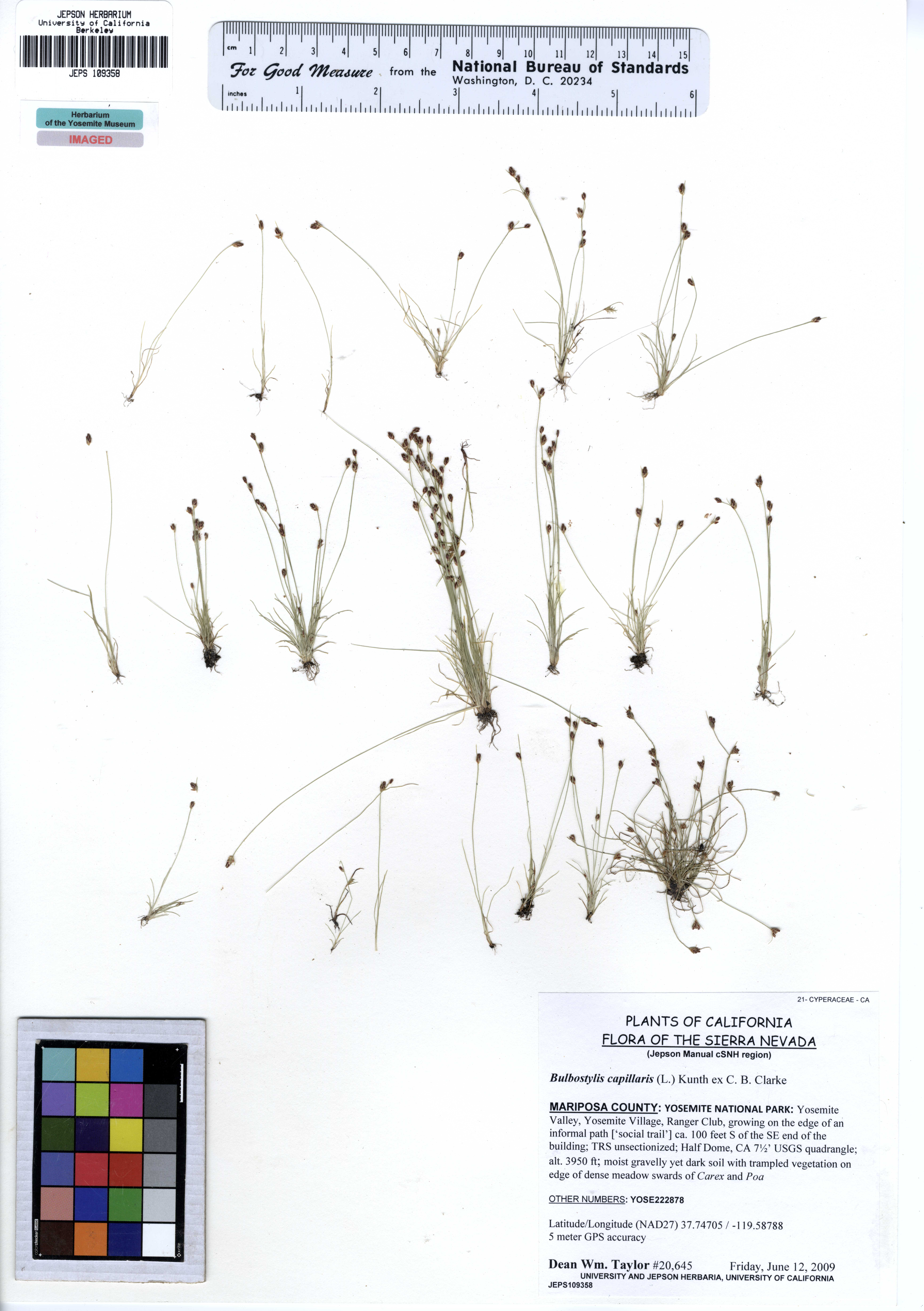 JEPS109358 Bulbostylis capillaris